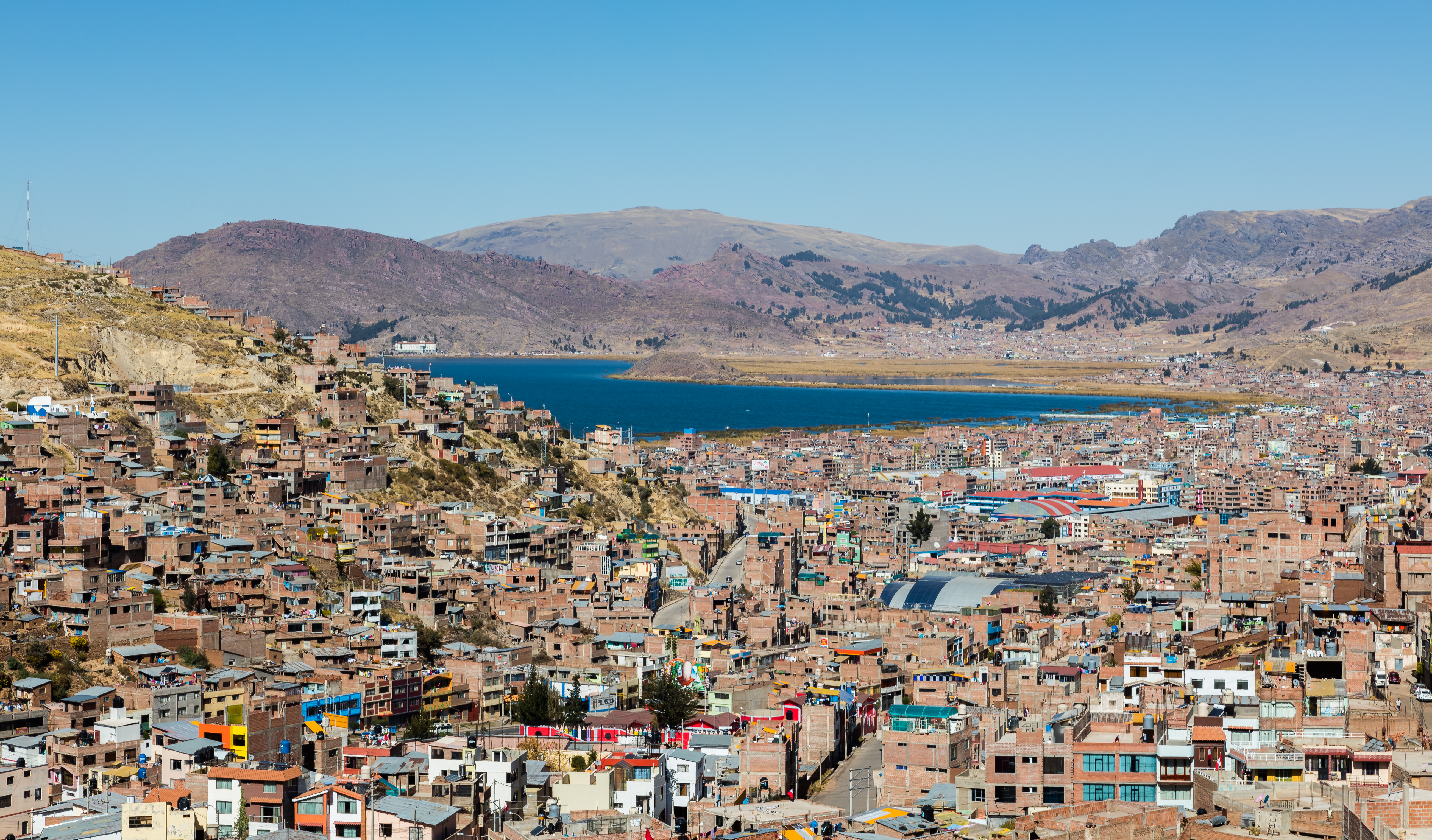 View of Puno and the Titicaca lake, Peru